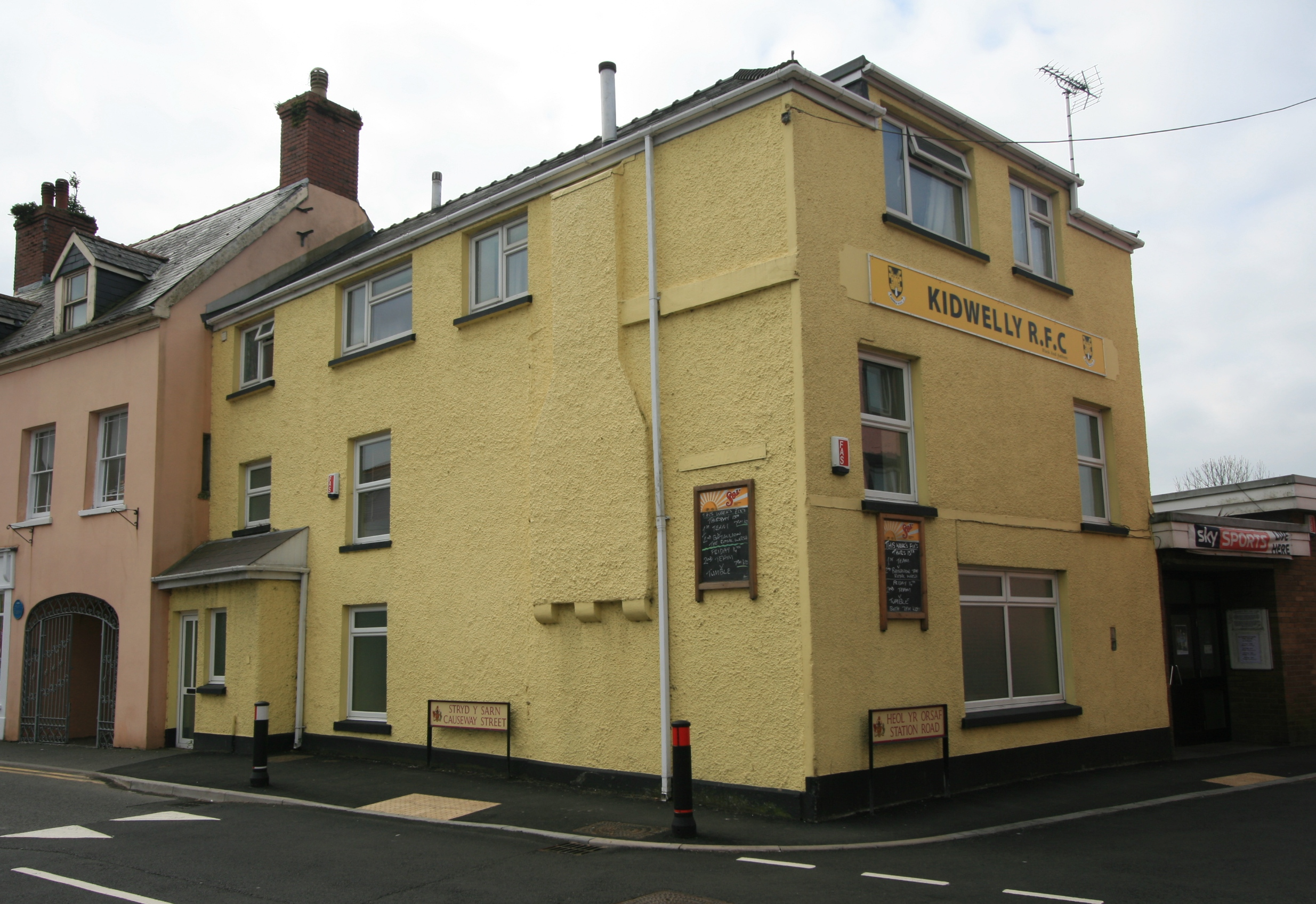 Kidwelly RFC Headquarters in Station Road, Kidwelly. Has been since April 1968.